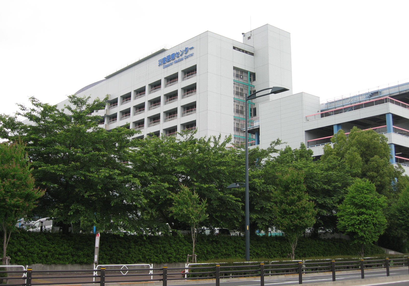 National Disaster Medical Center. 3256 Midorichô, Tachikawa, Tokyo, Japan.